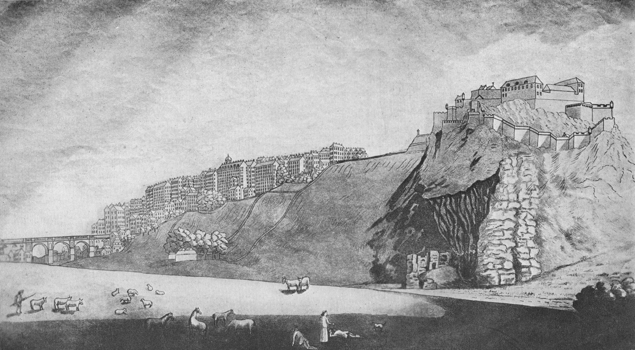 Site of the Nor Loch after draining c.1781. This image is annotated on its description page at Wikimedia Commons.